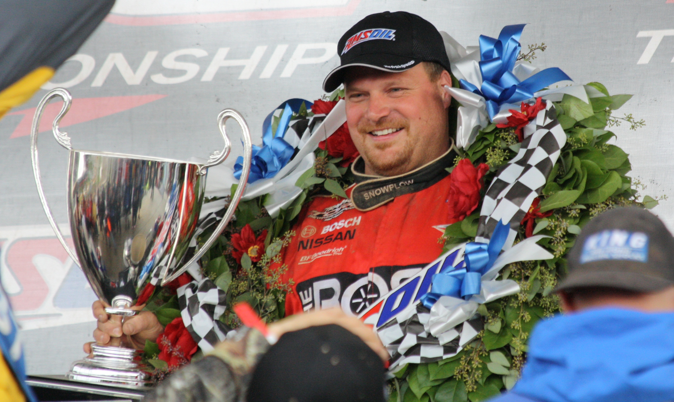 Chad Hord holds the 2011 AMSOIL Cup after winning the world championship race in short-course off-road racing.